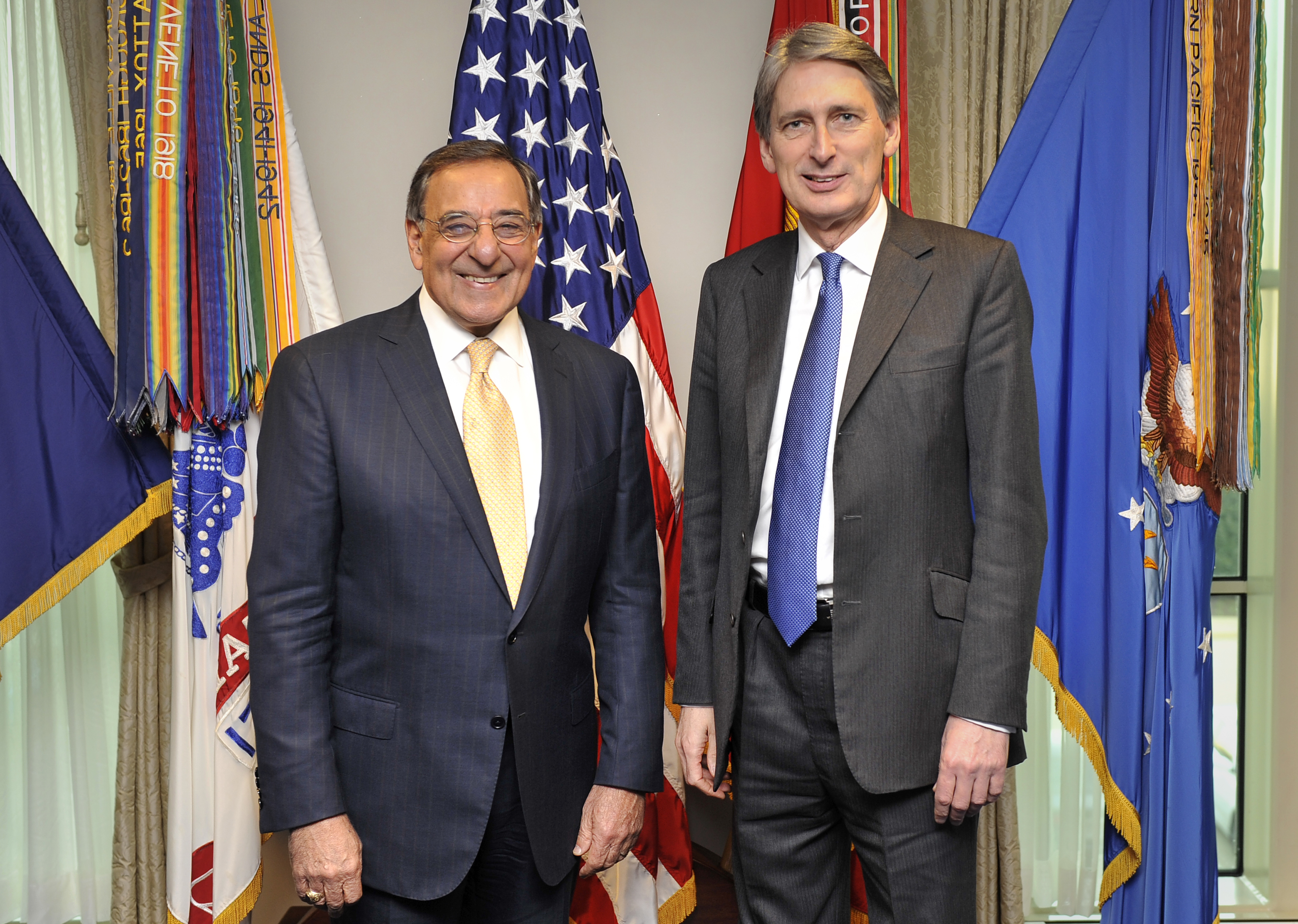 Secretary of Defense Leon E. Panetta, left, poses for the formal photo with the flags as he greets Secretary of State for Defence of the United Kingdom, The Right Honourable Philip Hammond MP at the Pentagon. Panetta and Hammond came together to sign a statement of intent of the Enhanced Cooperation on Carrier Operations and Maritime Power Projection. (DOD PHOTO BY GLENN FAWCETT)(Released